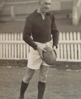 Photograph of Charlie Ahern in 1929